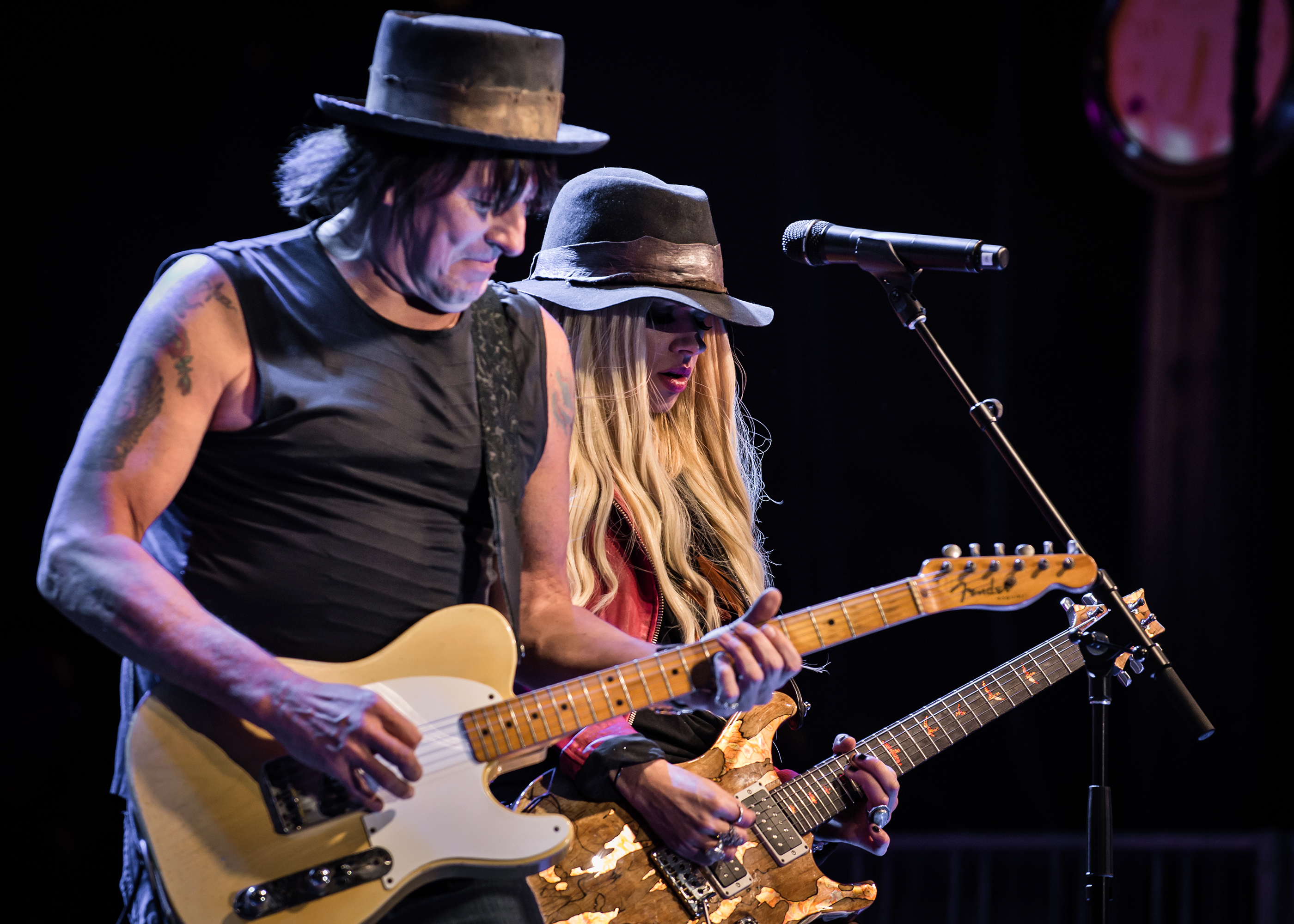 Ritchie Sambora and Orianthi performing as RSO at NAMM 2017